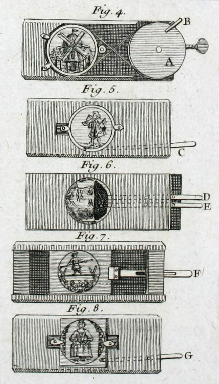 Mechanical slides for a magic lantern as illustrated in Petrus van Musschenbroek's Beginselen Der Natuurkunde (1736)